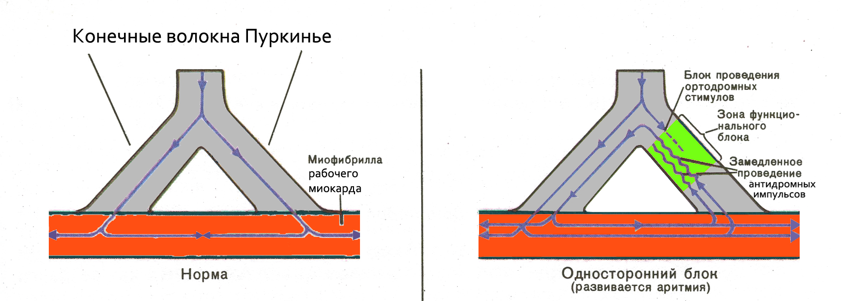 Arrhythmia pathogenesis